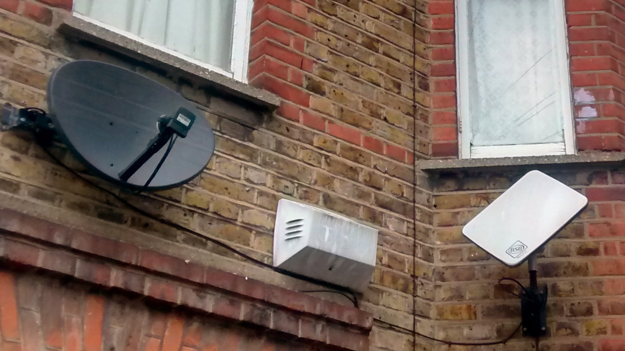 a Sky Minidish and (long-defunct) BSB Squarial side-by-side on a house in London